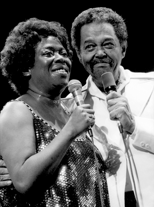 Sarah Vaughan & Billy Eckstine at Monterey Jazz Festival 1981. Photo by Brian McMillen /